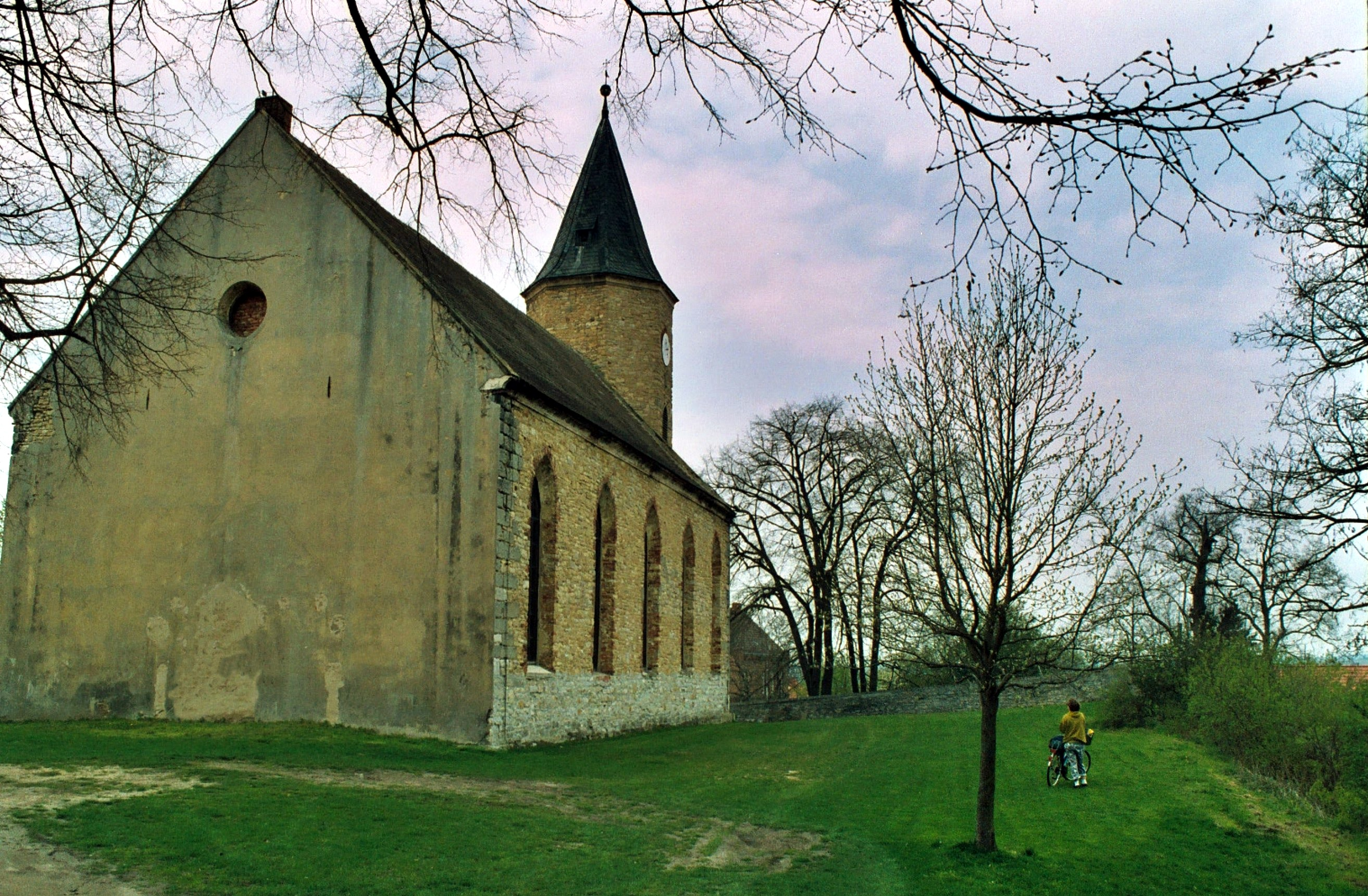 Schadeleben (Seeland), the village church